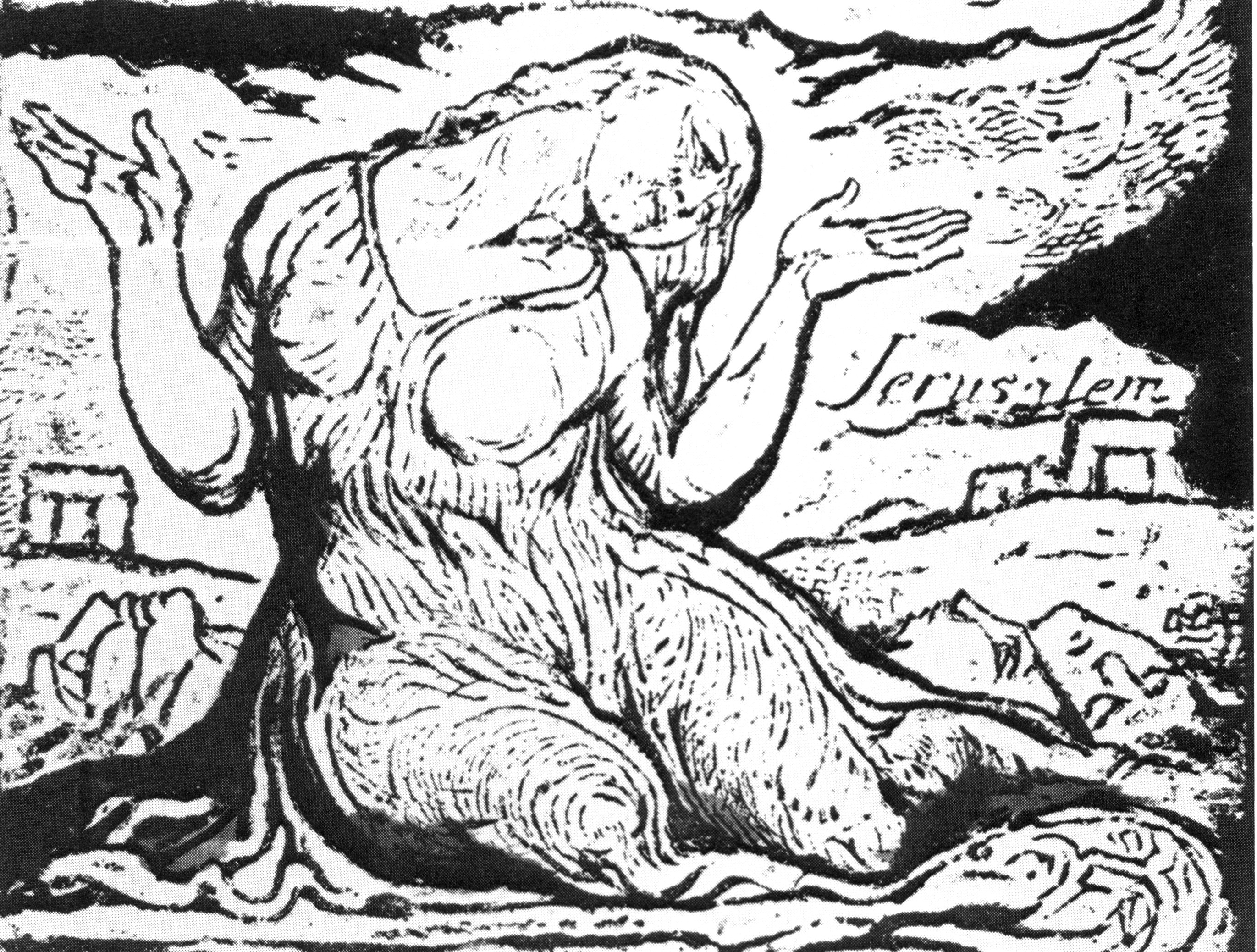 Druid Rocks with pitying figure of Jerusalem. Detail from Jerusalem The Emanation of the Giant Albion Copy A, Plate 92 by Blake relief-etching (British Museum)